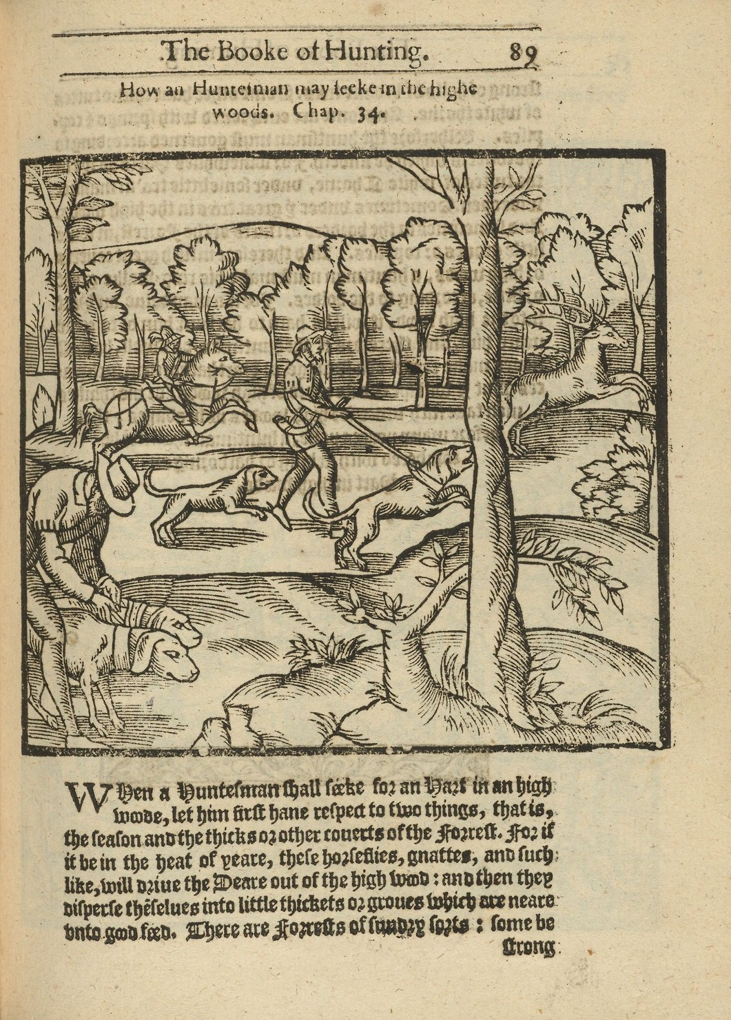 Page 89 illustration from The Noble Art of Venerie or Hunting: wherein is handled and set out the vertues, nature, and properties of fifteene sundry chaces, together with the order and manner how to hunt and kill euery one of them, 1611, adapted and translated by George Gascoigne (d. 1577) from a French text by by Jacques du Fouilloux and printed by Thomas Purfoot. Typ 605.11.853, Houghton Library, Harvard University